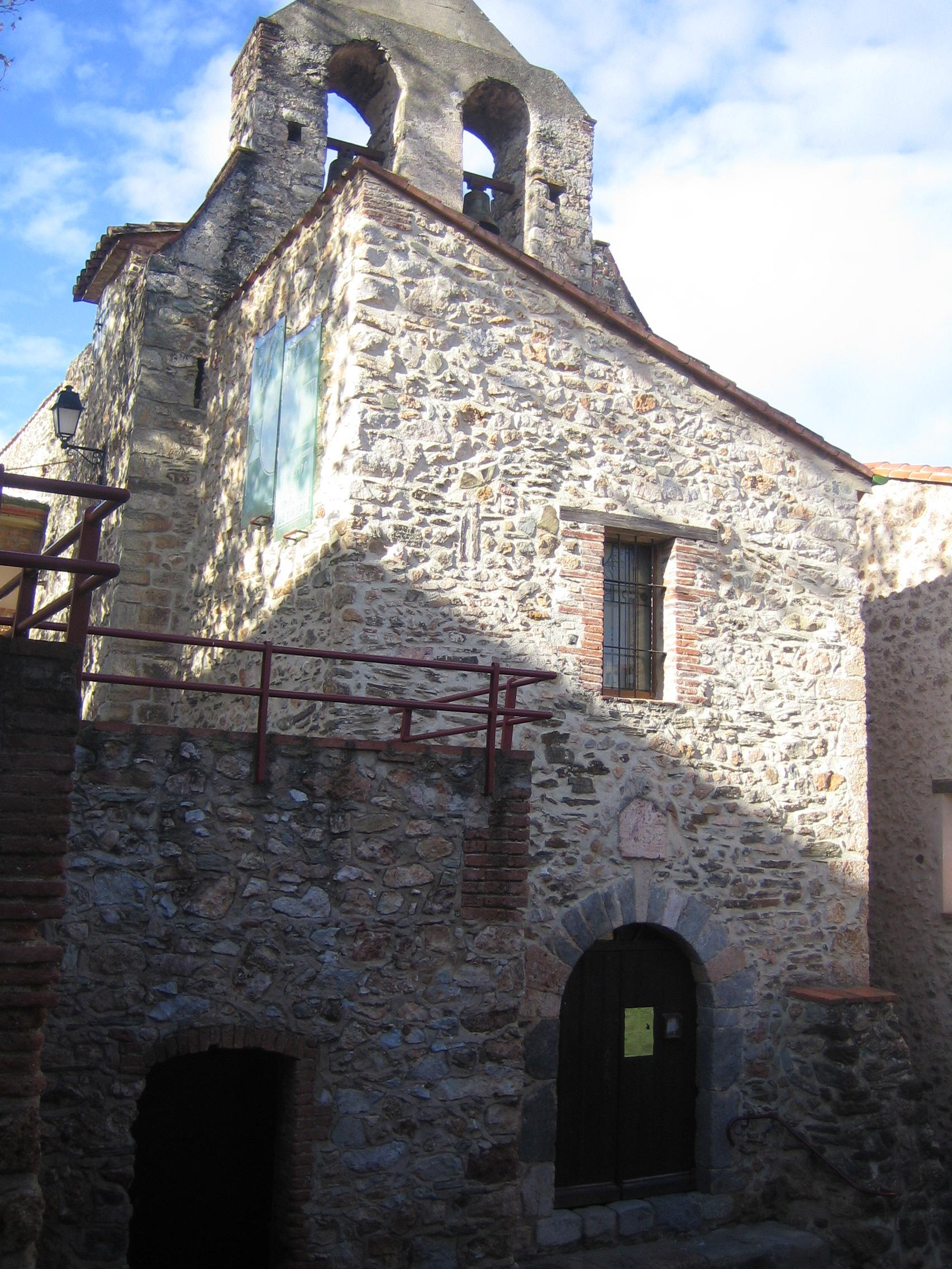 Llauro (Rosselló)